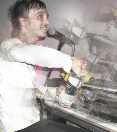 From an Amnion live show in Los Angeles.